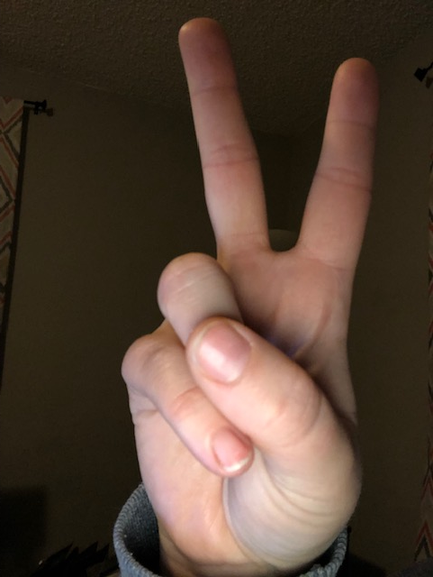 Peace Hand Symbol